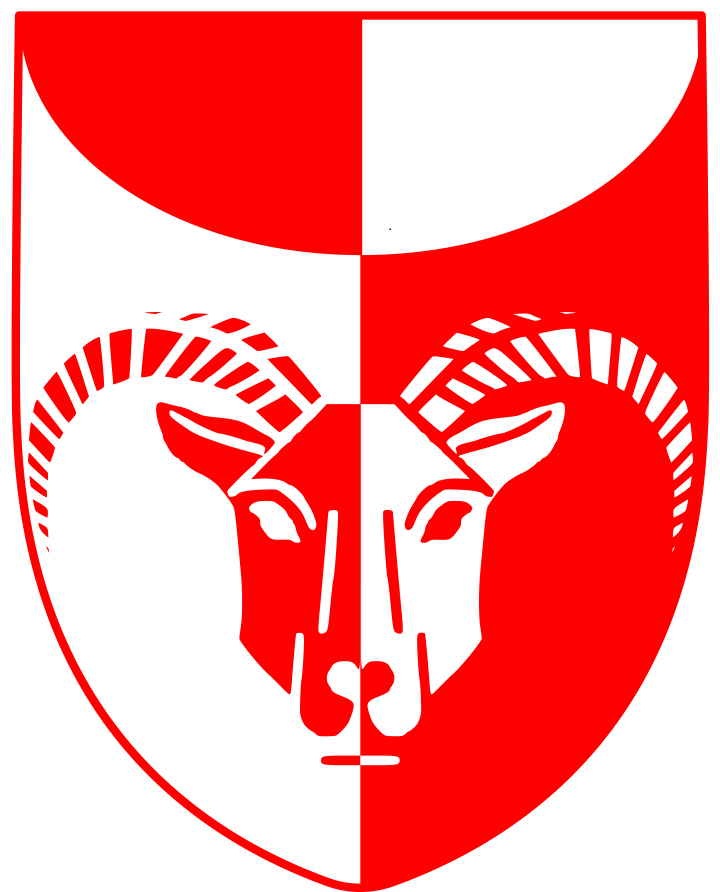 Kommune Kujalleq logo